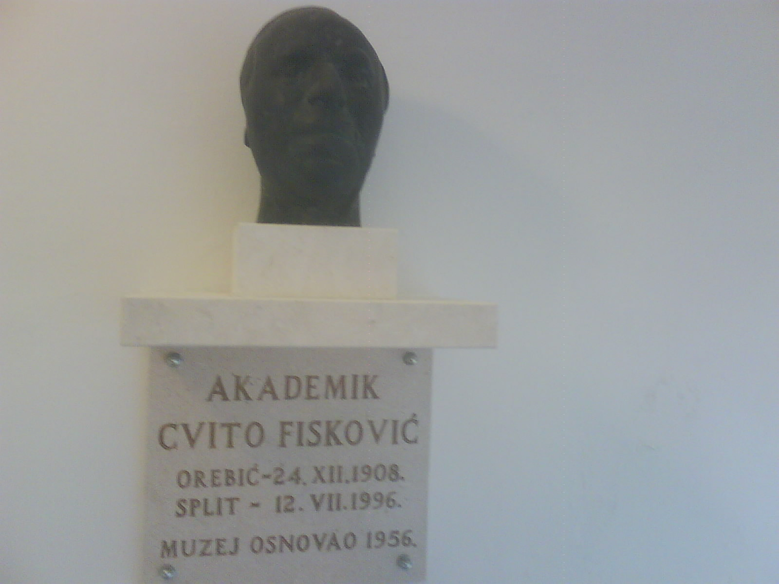 Bust of Cvito Fisković in Orebić